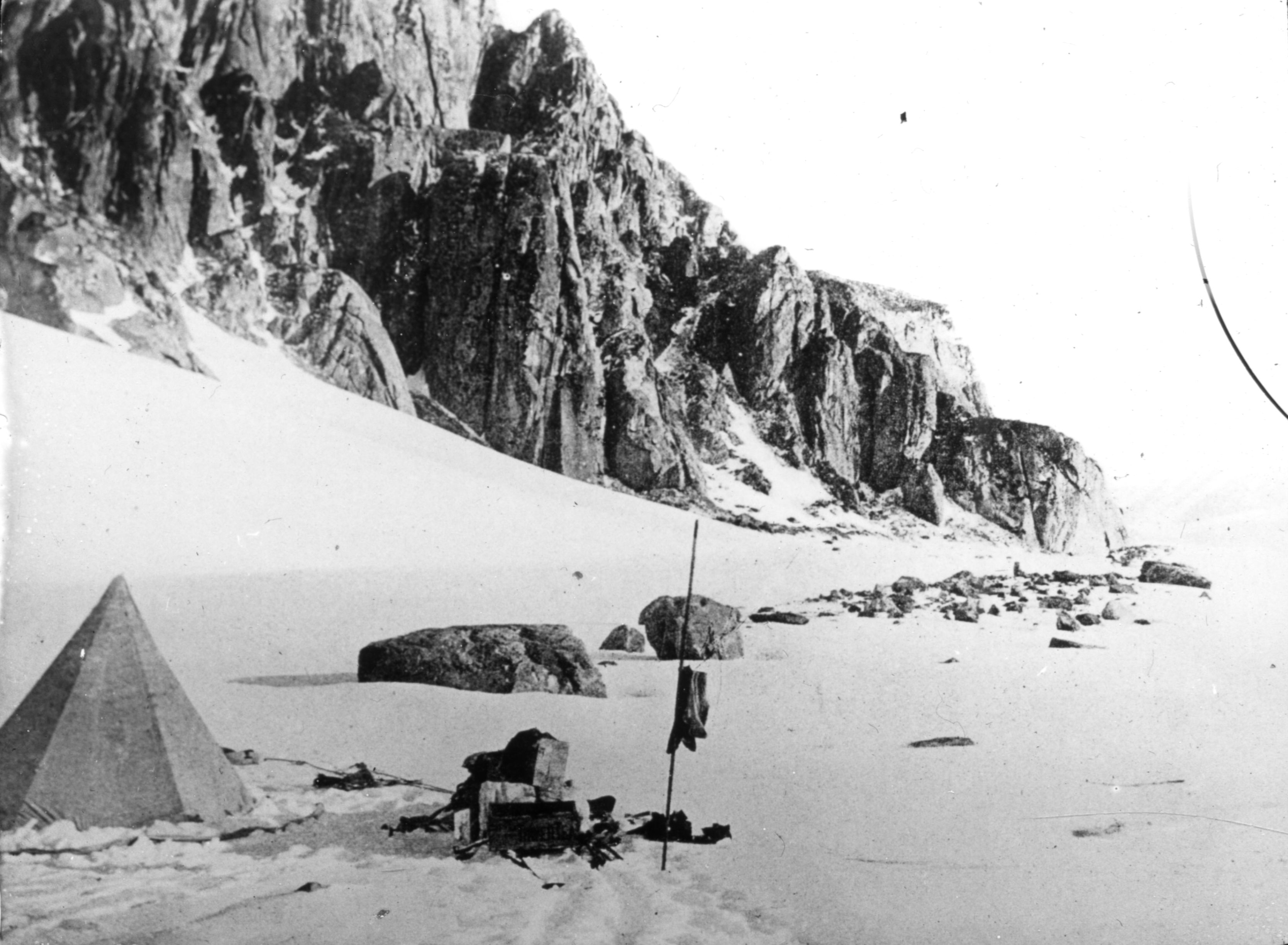 Photographs of the Nimrod Expedition (1907-09) to the Antarctic, led by Ernest Sheckleton